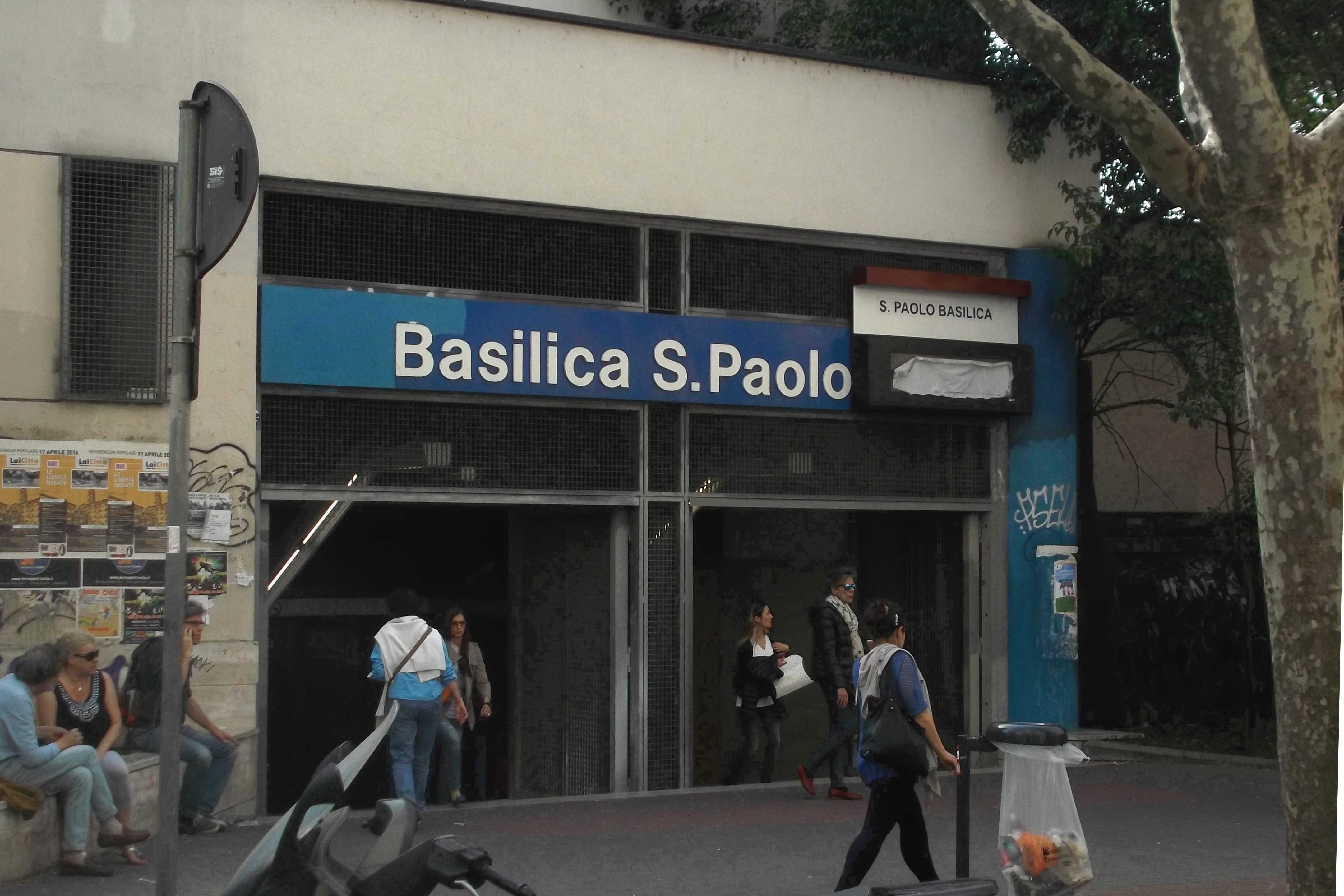 Entrance of Basilica San Paolo metro B railway station in Rome